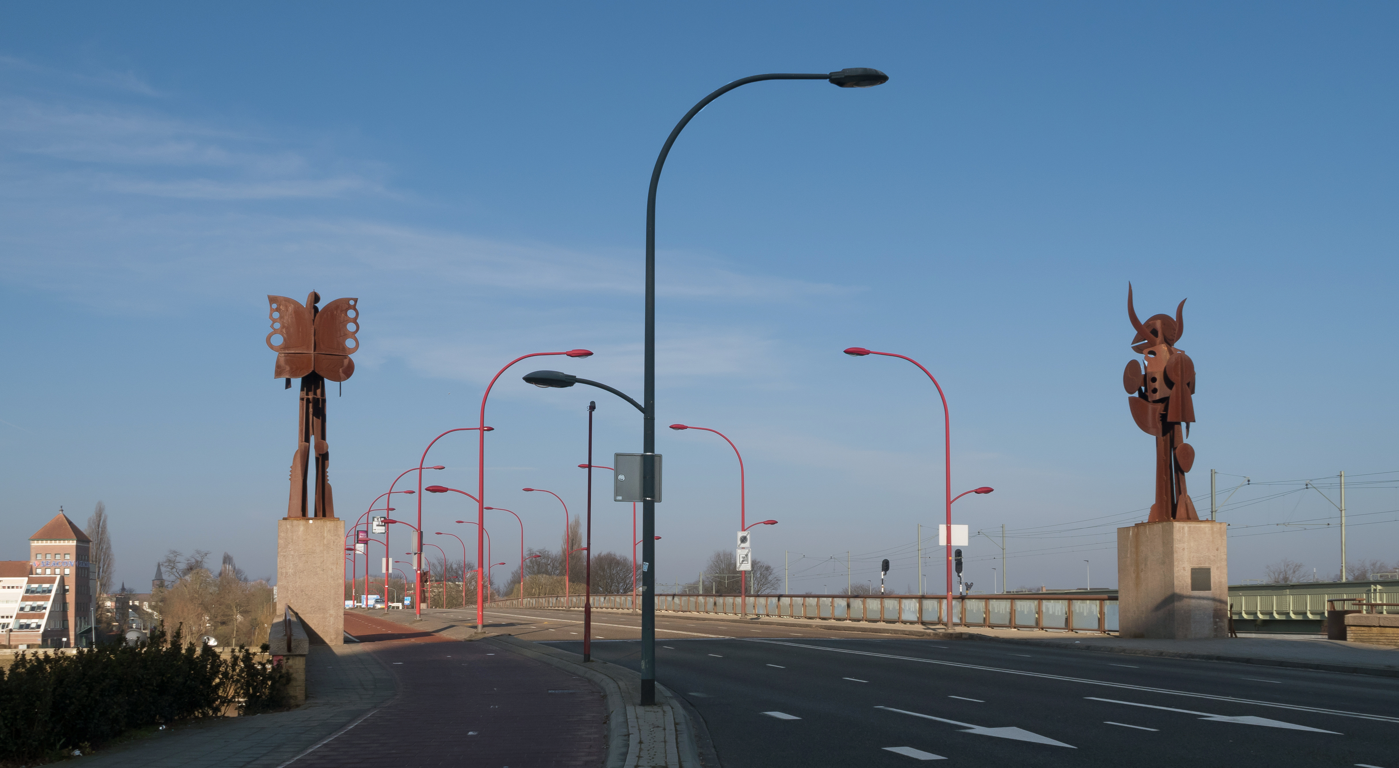 Venlo, Two Tenders (designed by Shinkichi Tajiri) at the bridge (de Maasbrug) to Blerick